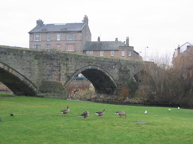 The Auld Brig, Musselburgh. Now a footbridge.